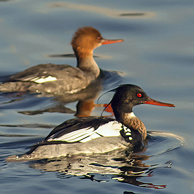 Male and female Red-breasted Merganser (Mergus serrator) at Oslo harbour.